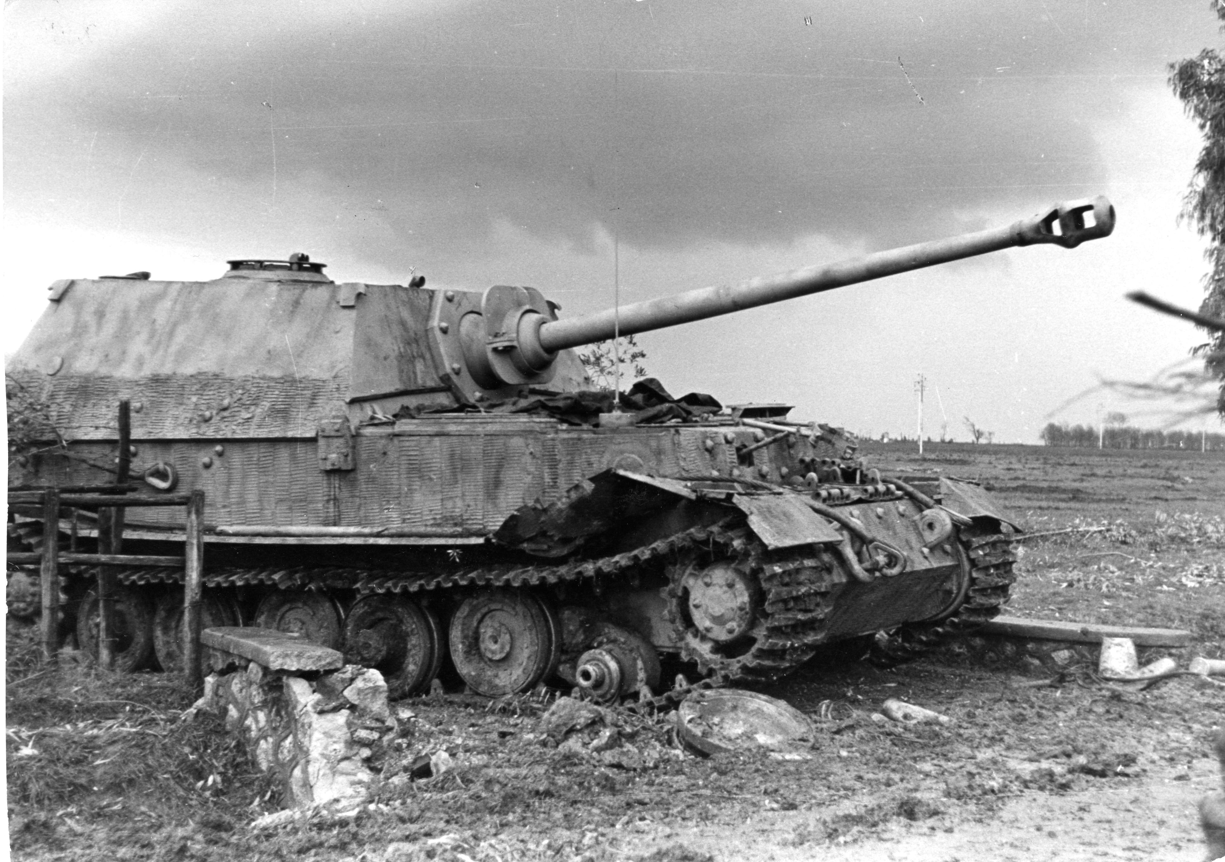 Information added by Wikimedia users.